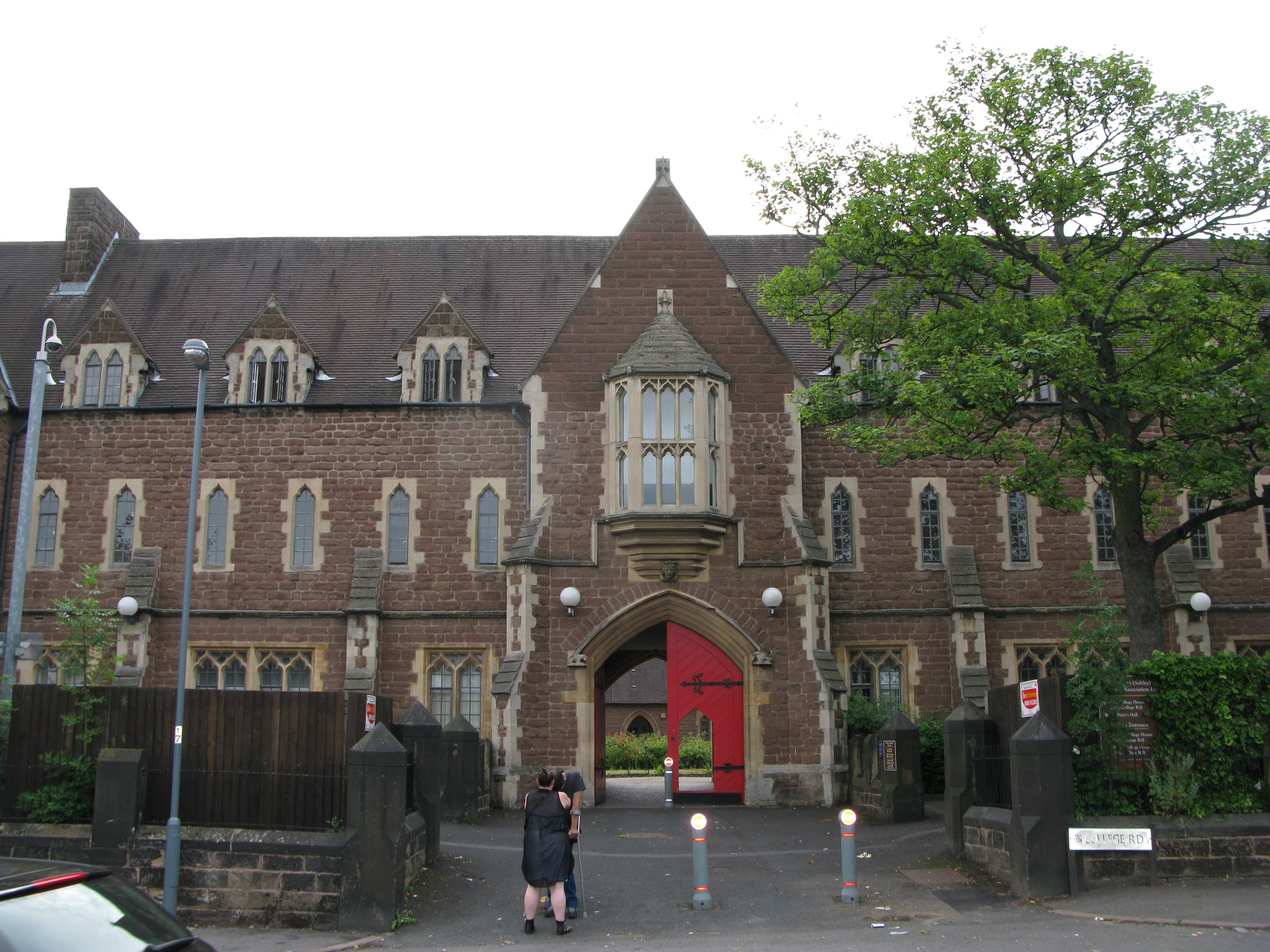 Grade II